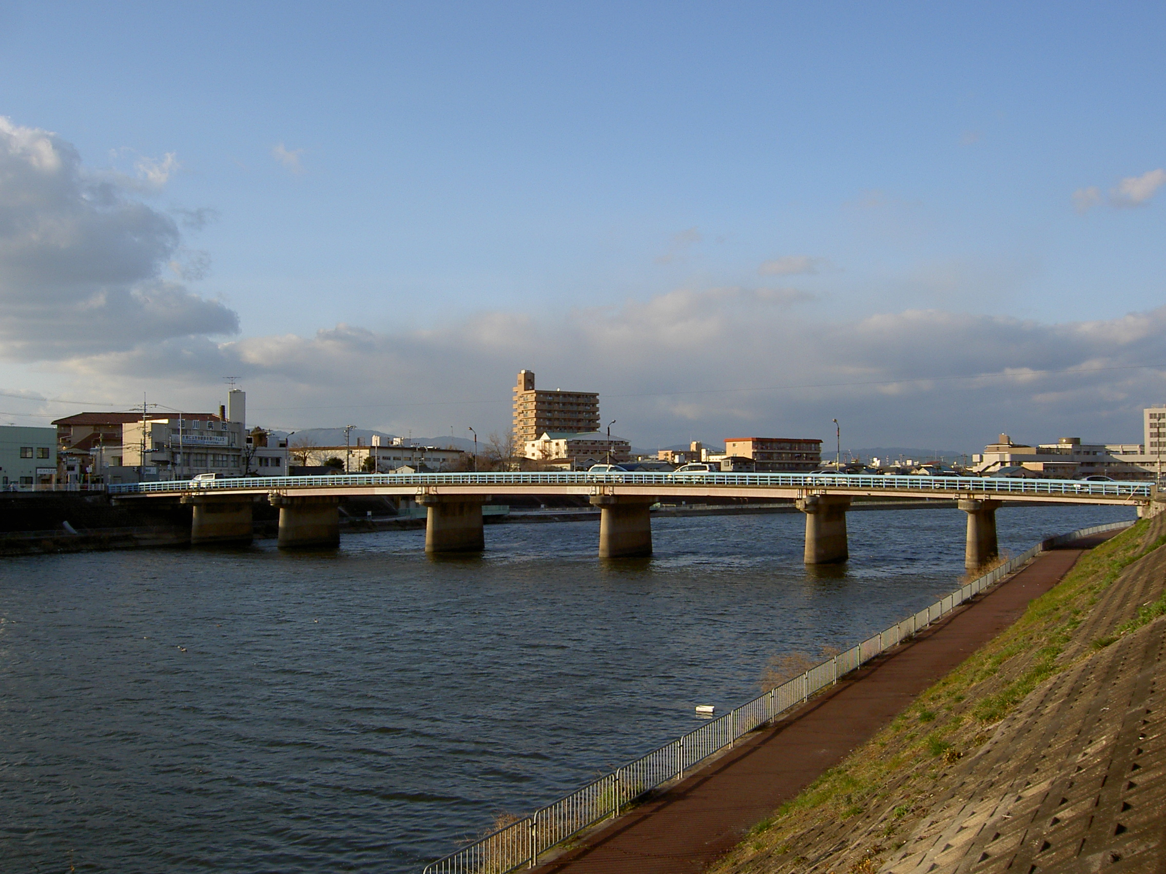 Shinkeihan Bridge. Higashiyodoogawa-ku, Osaka-shi, Osaka, Japan.